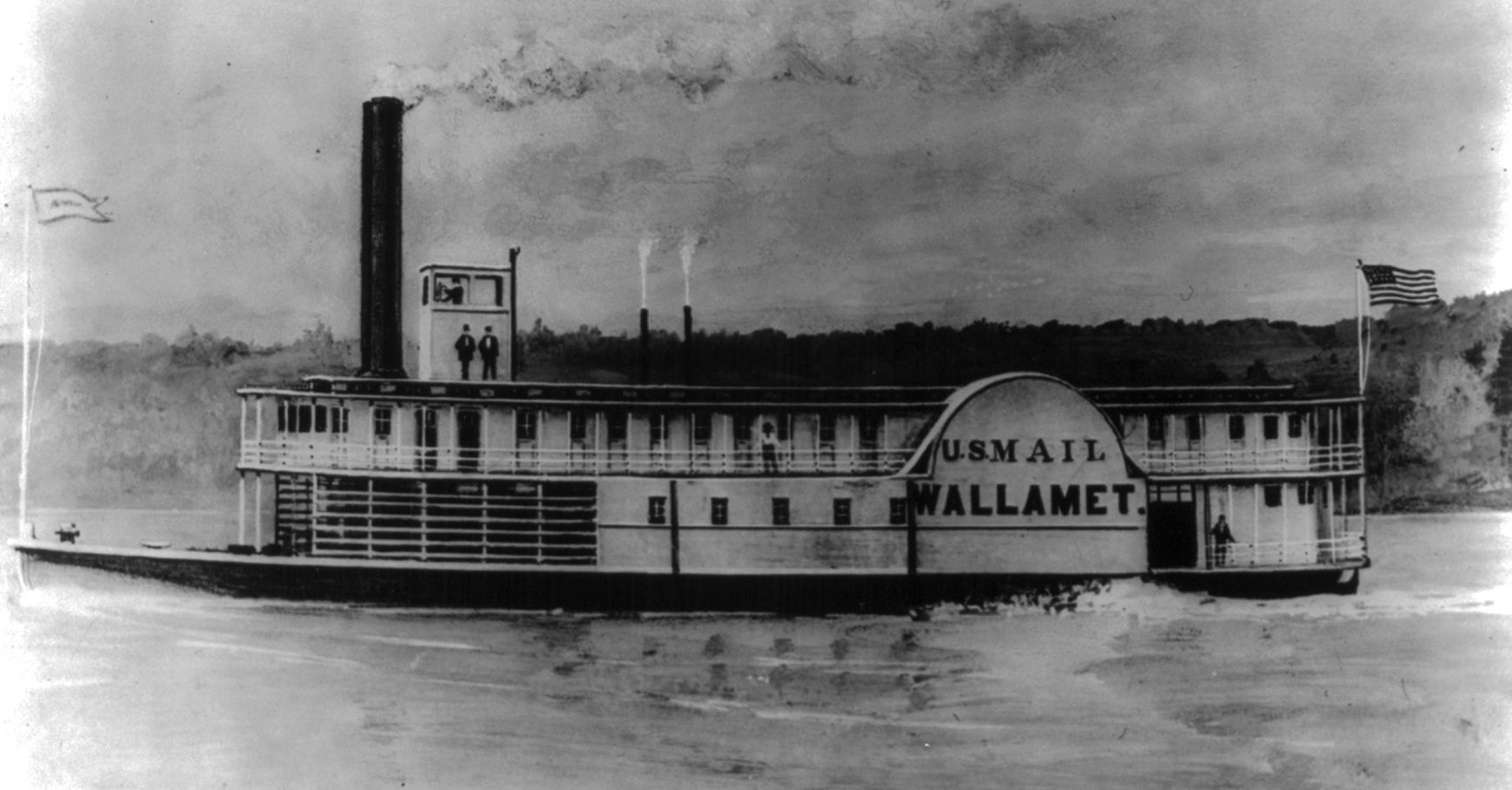 Photograph of a painting of the steamer Wallamet, circa 1855.